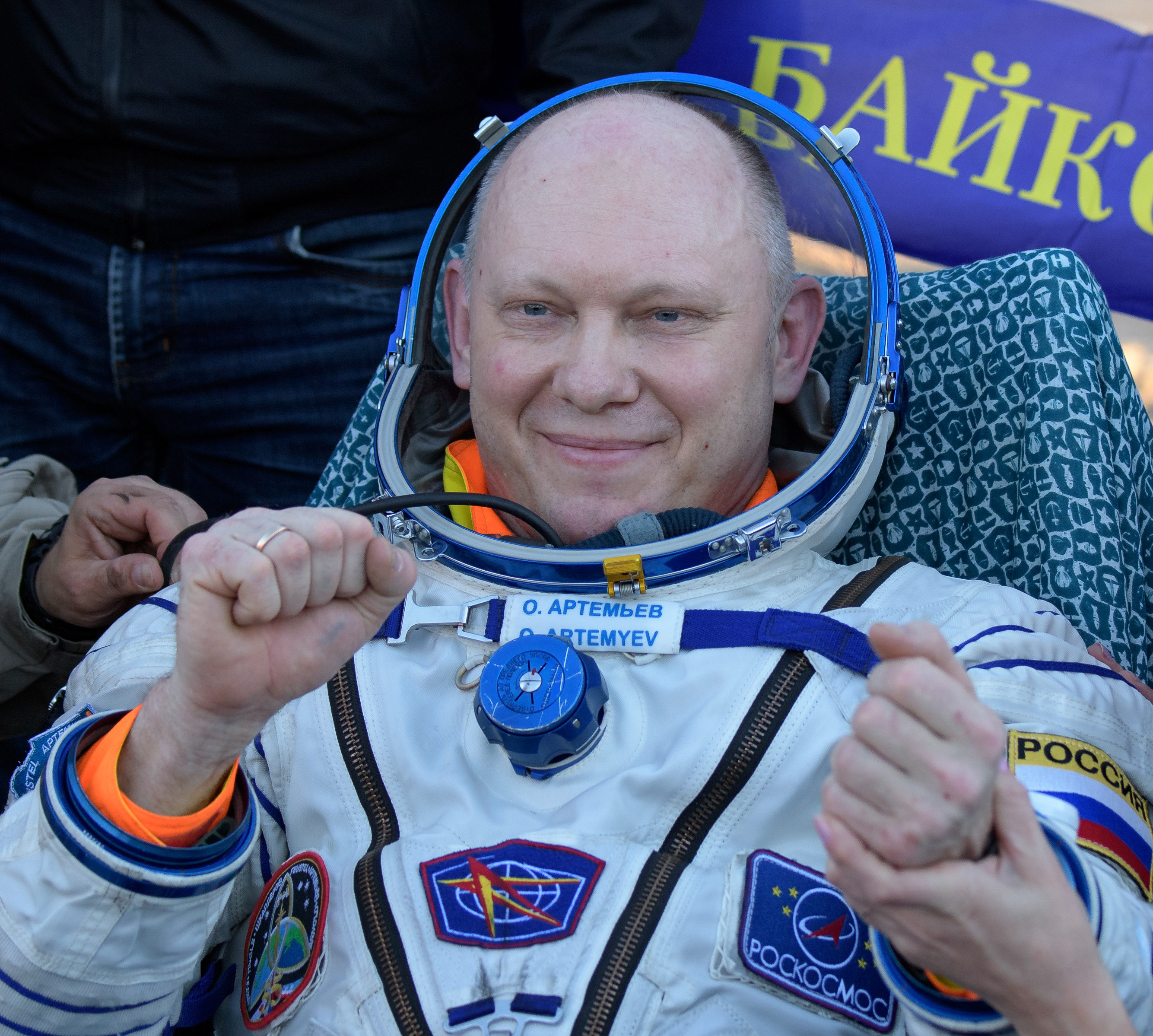 Expedition 56 Flight Engineer and Soyuz Commander Oleg Artemyev of Roscosmos rest in a chair just minutes after he and Expedition 56 Flight Engineer Ricky Arnold of NASA, and Expedition 56 Commander Drew Feustel of NASA landed in a remote area near the town of Zhezkazgan, Kazakhstan on Thursday, Oct. 4, 2018. Feustel, Arnold, and Artemyev are returning after 197 days in space where they served as members of the Expedition 55 and 56 crews onboard the International Space Station.